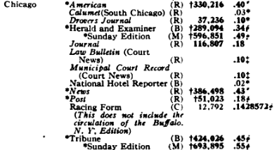 Excerpt of newspaper circulation chart contained in July 24, 1919 issue of Editor & Publisher, excerpt shows Chicago newspapers.